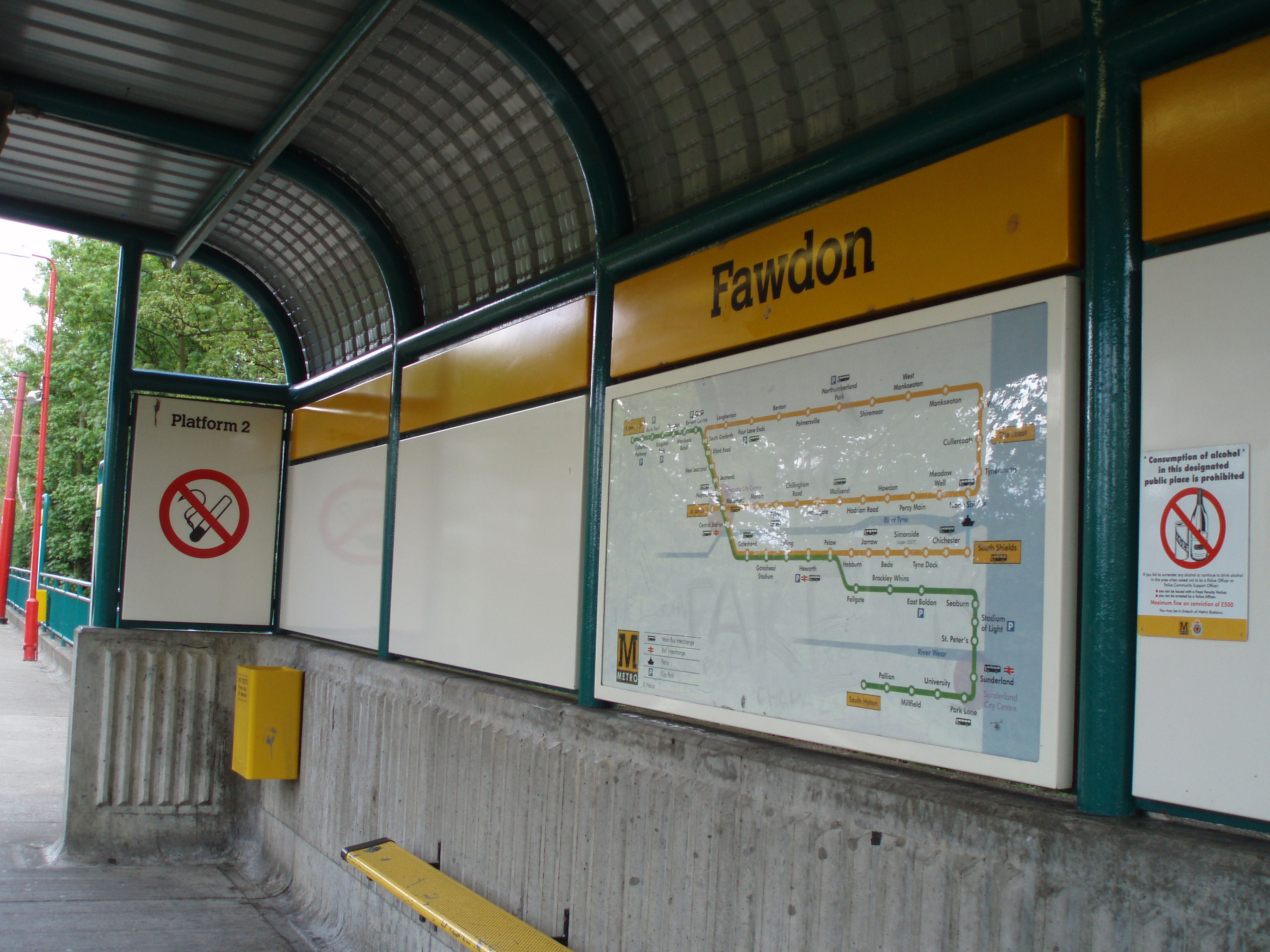 Fawdon station on the Tyne and Wear Metro. The Platform 2 shelter.